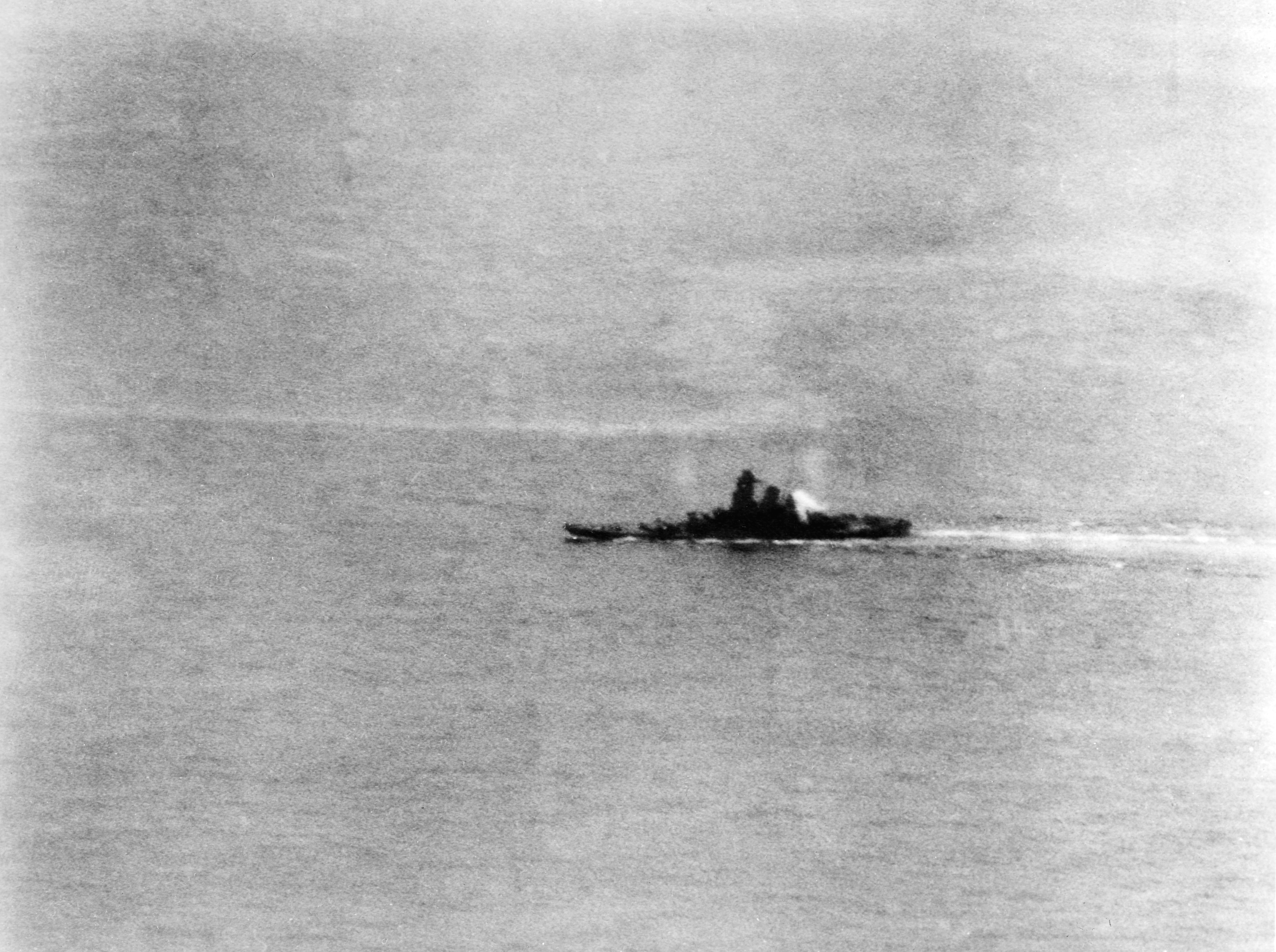 Operation "Ten-Go": The Japanese battleship Yamato listing to port and afire at the after end of her superstructure, but still underway, while under attack by U.S. Navy carrier planes north of Okinawa, 7 April 1945. The photo was taken by a plane from the aoircraft carrier USS Yorktown (CV-10). The original photo caption reads: "A torpedo plane's view of battleship Yamato. This is how Japan's mightiest warship appeared as six lone U.S. Navy torpedo planes raced in to destroy her. She is still making 10 to 15 knots, though fires continue to burn amidships." (Collection of Fleet Admiral Chester W. Nimitz, USN).